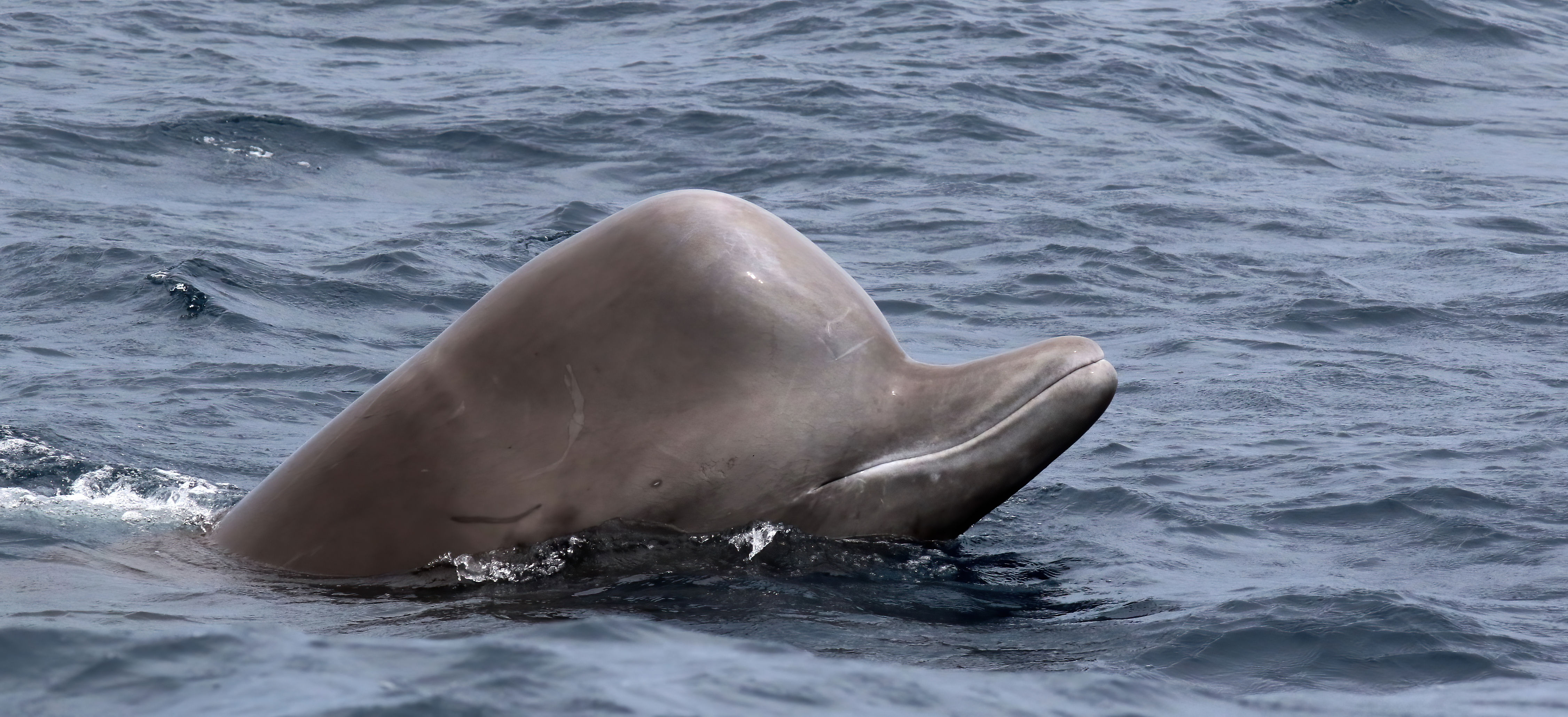 A male northern bottlenose whale "spy hops" in the Gully, NS during a research expedition taken by the Whitehead Lab.